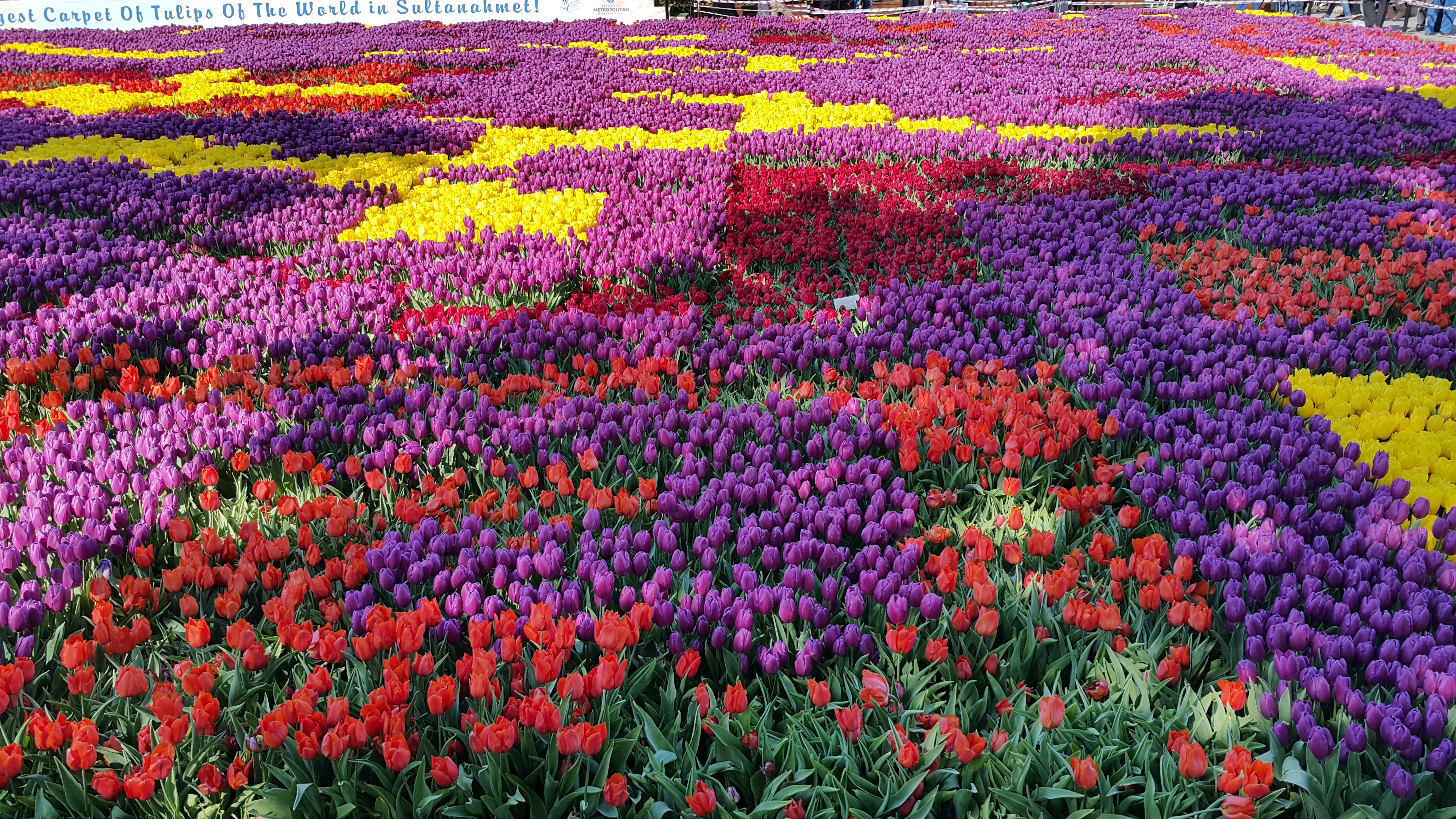 The largest carpet of tulips of the world in Sultanahmet Square, Istanbul, Turkey.